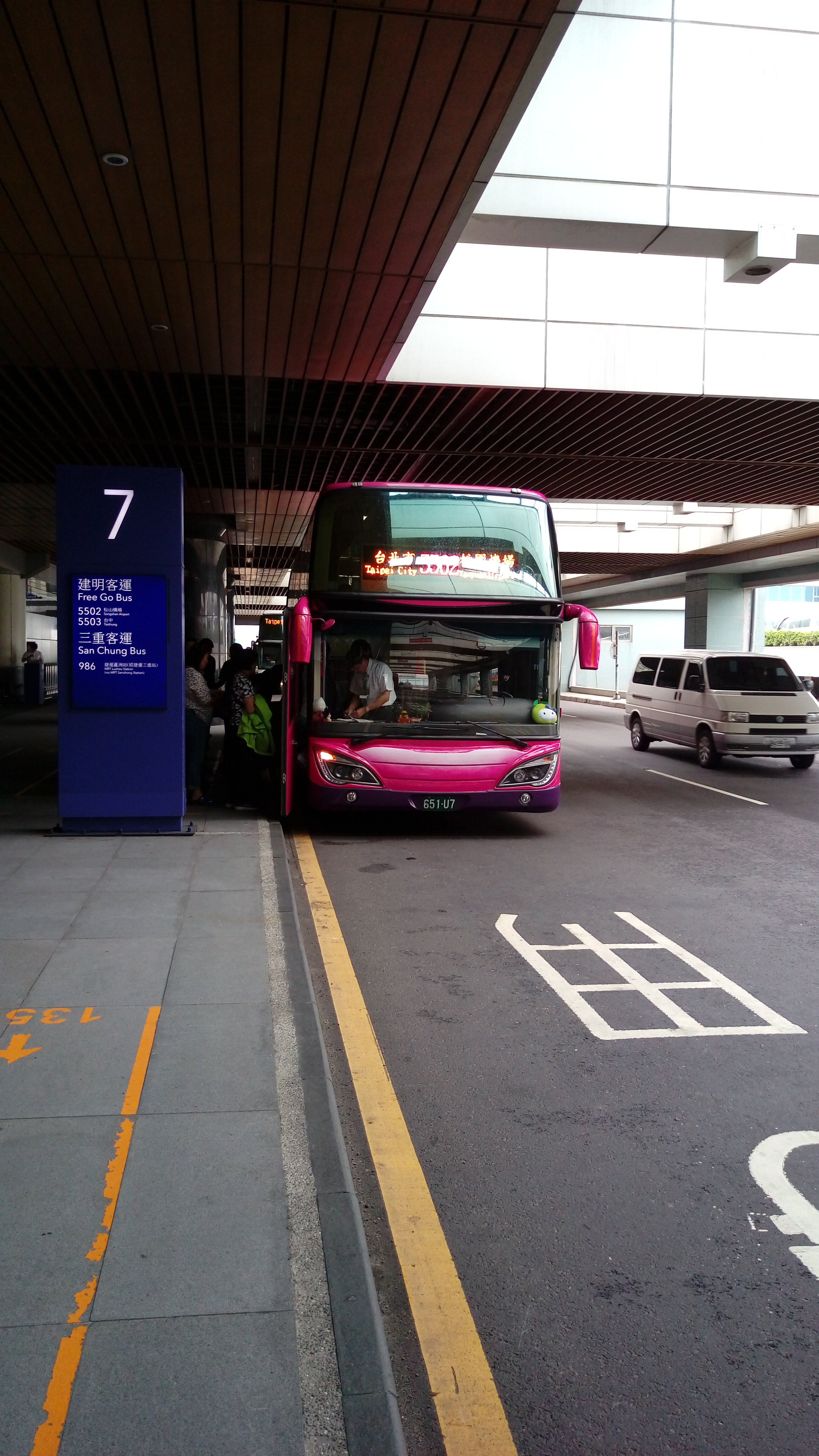 Hino RN bus 651-U7 of Free Go Bus.